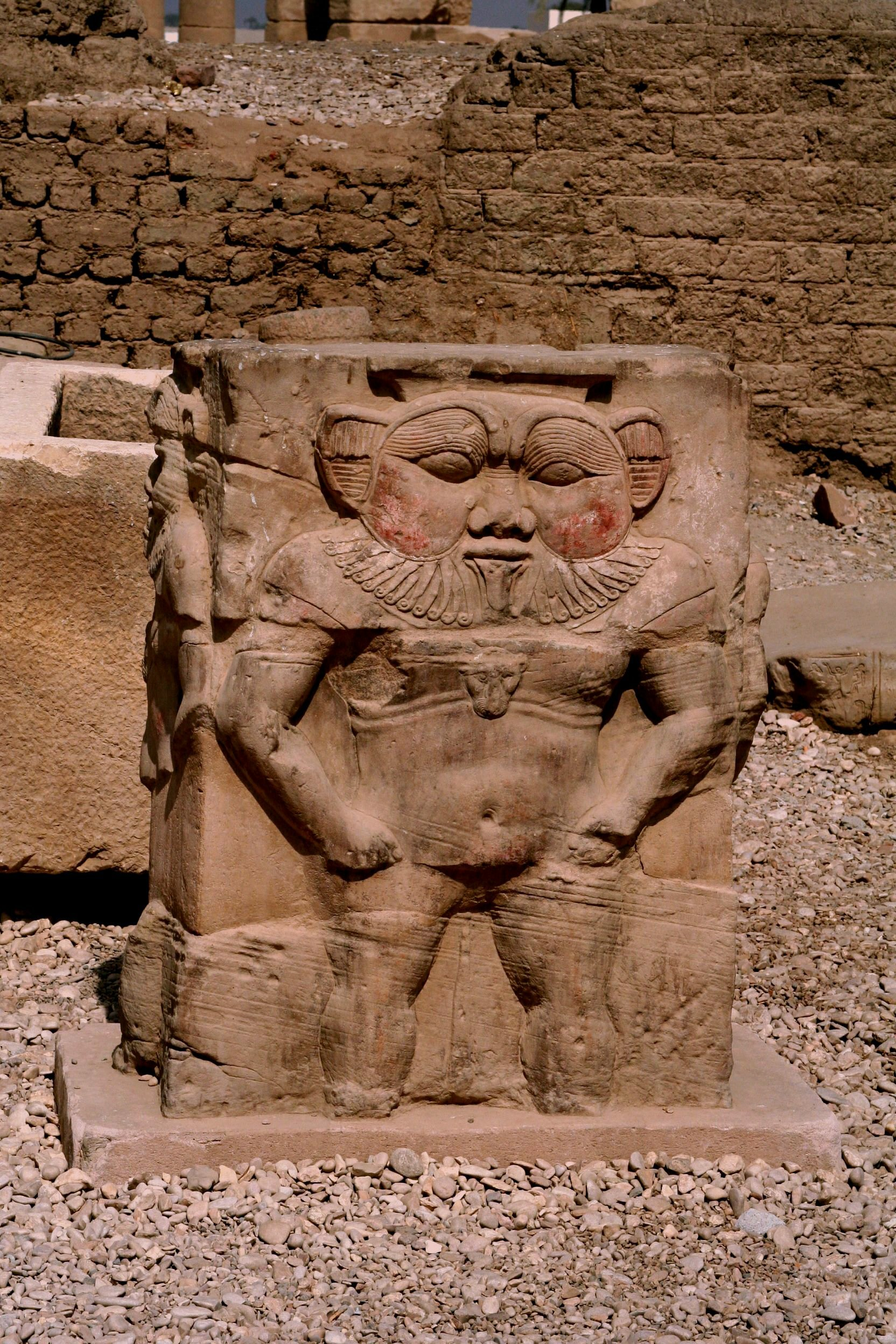 Capital of Column to god Bes at Dendera